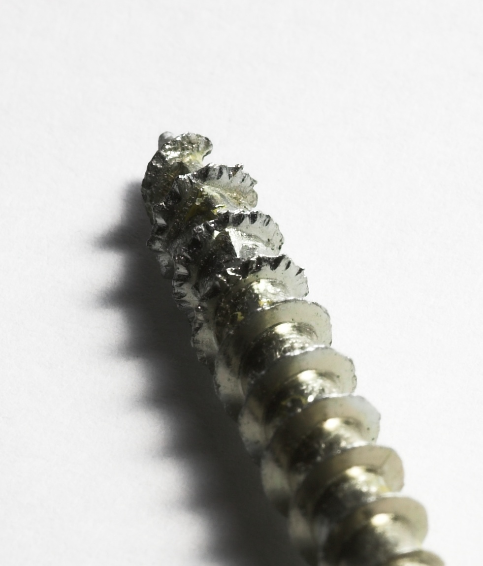 Thread of a genuine SPAX™ screw